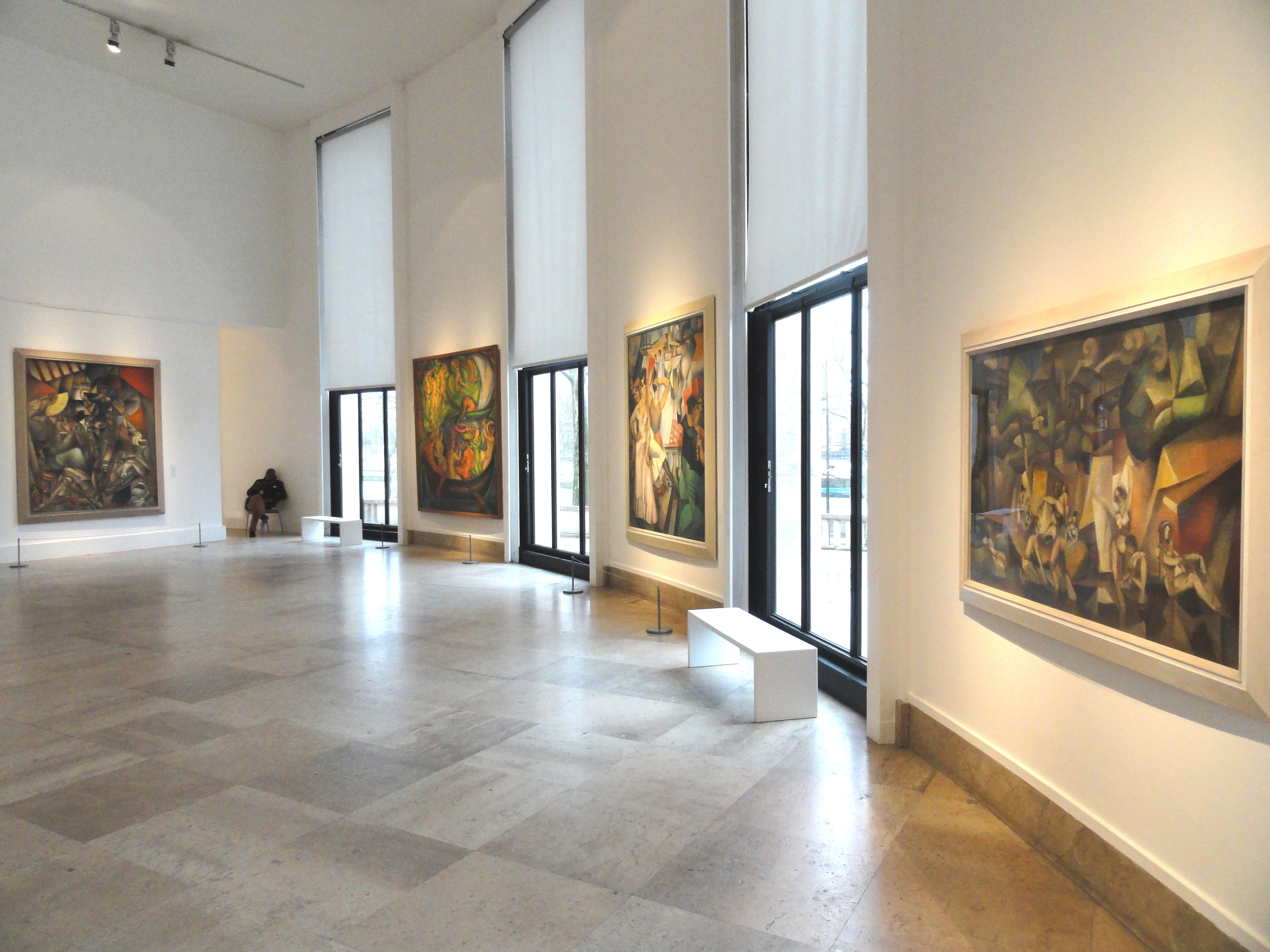 The Cubist room at Musée d'Art Moderne de la Ville de Paris. Left: Jean Metzinger, 1912-13, L'Oiseau bleu, (The Blue Bird). Center: Two works by André Lhote. Right: Albert Gleizes, 1912, Les Baigneuses (The Bathers)